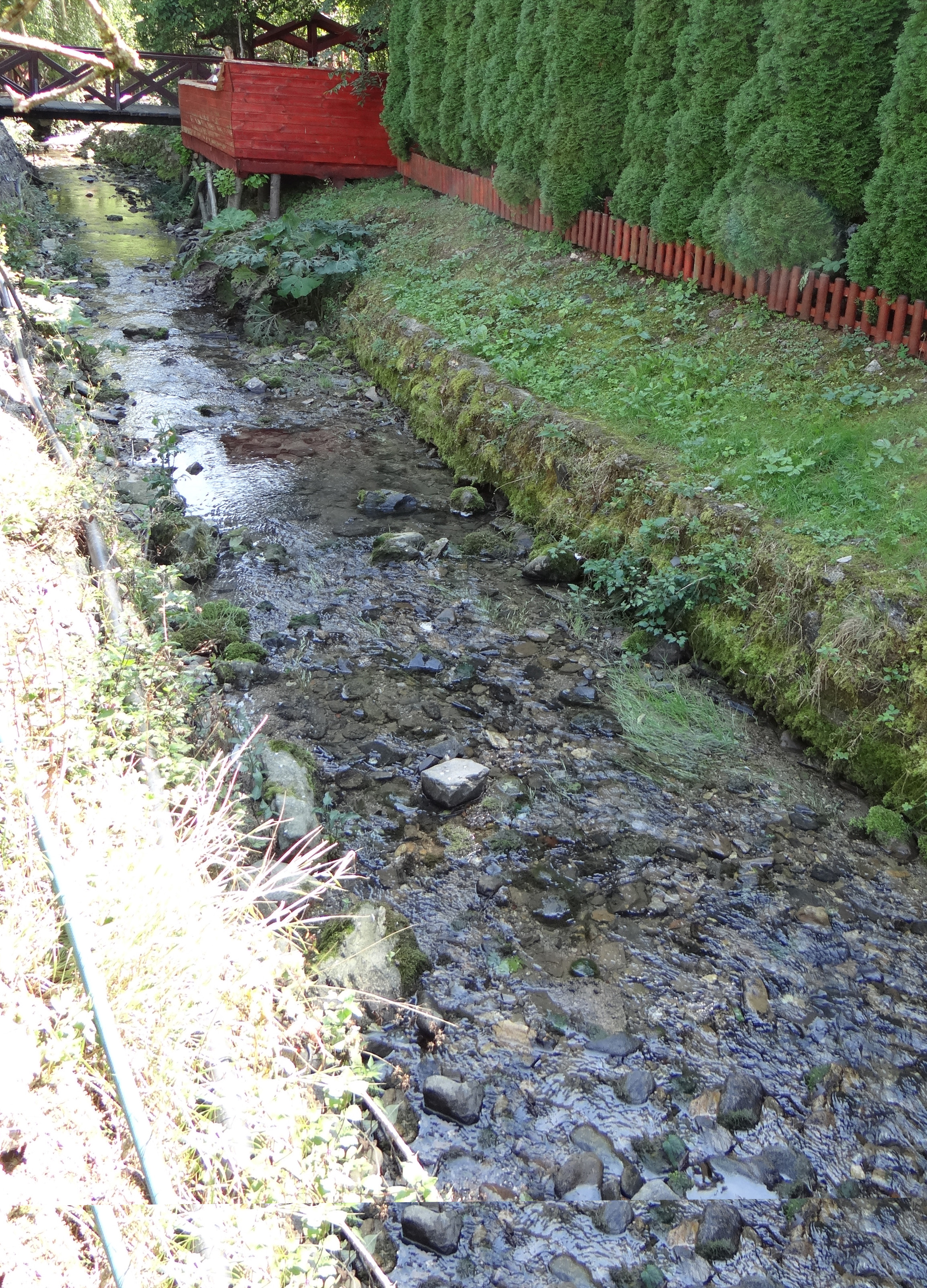 The Garadna stream, trout plant, Lillafüred, Hungary